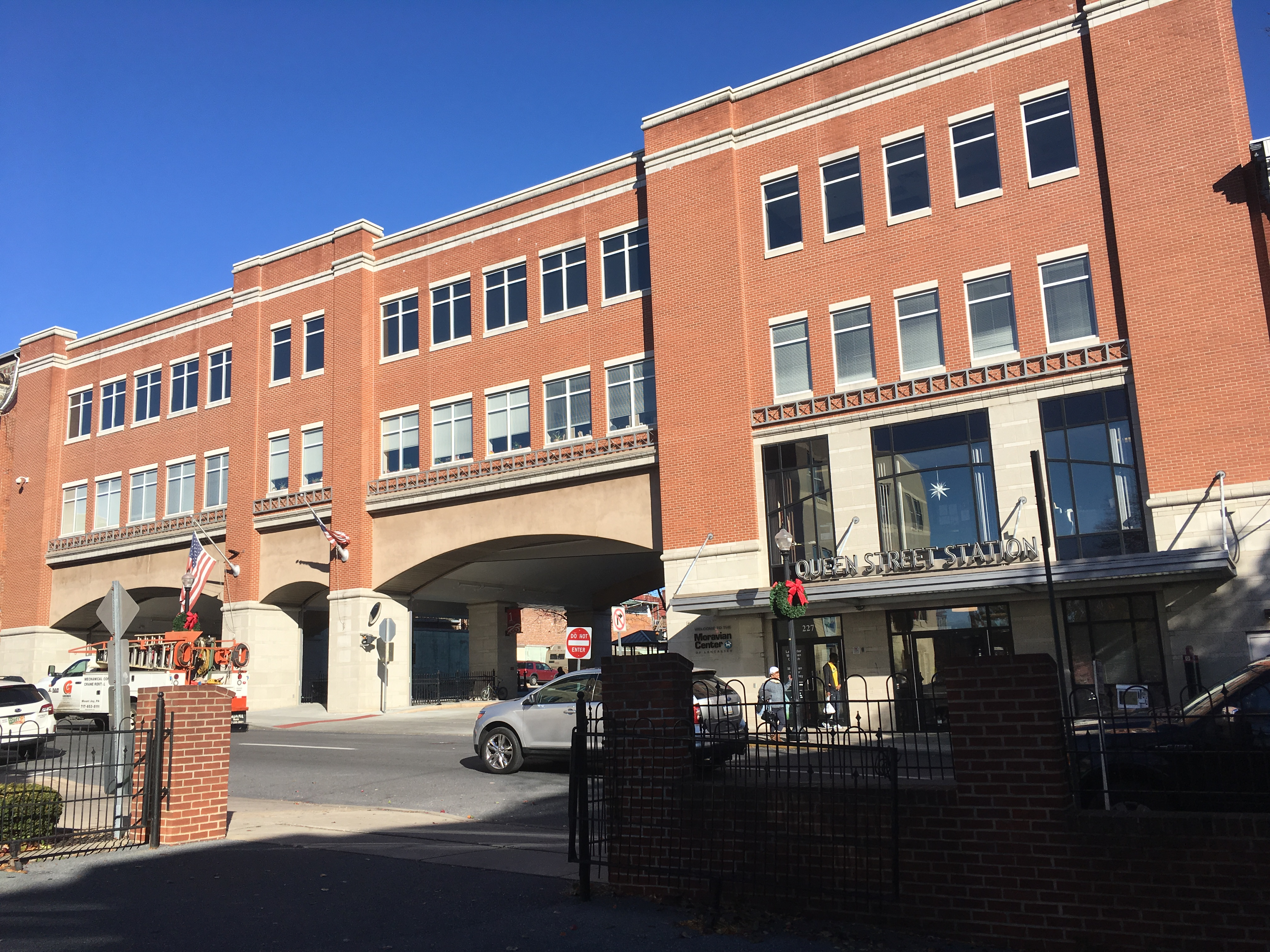 The Queen Street Station serving Red Rose Transit Authority (RRTA) buses in Lancaster, Pennsylvania